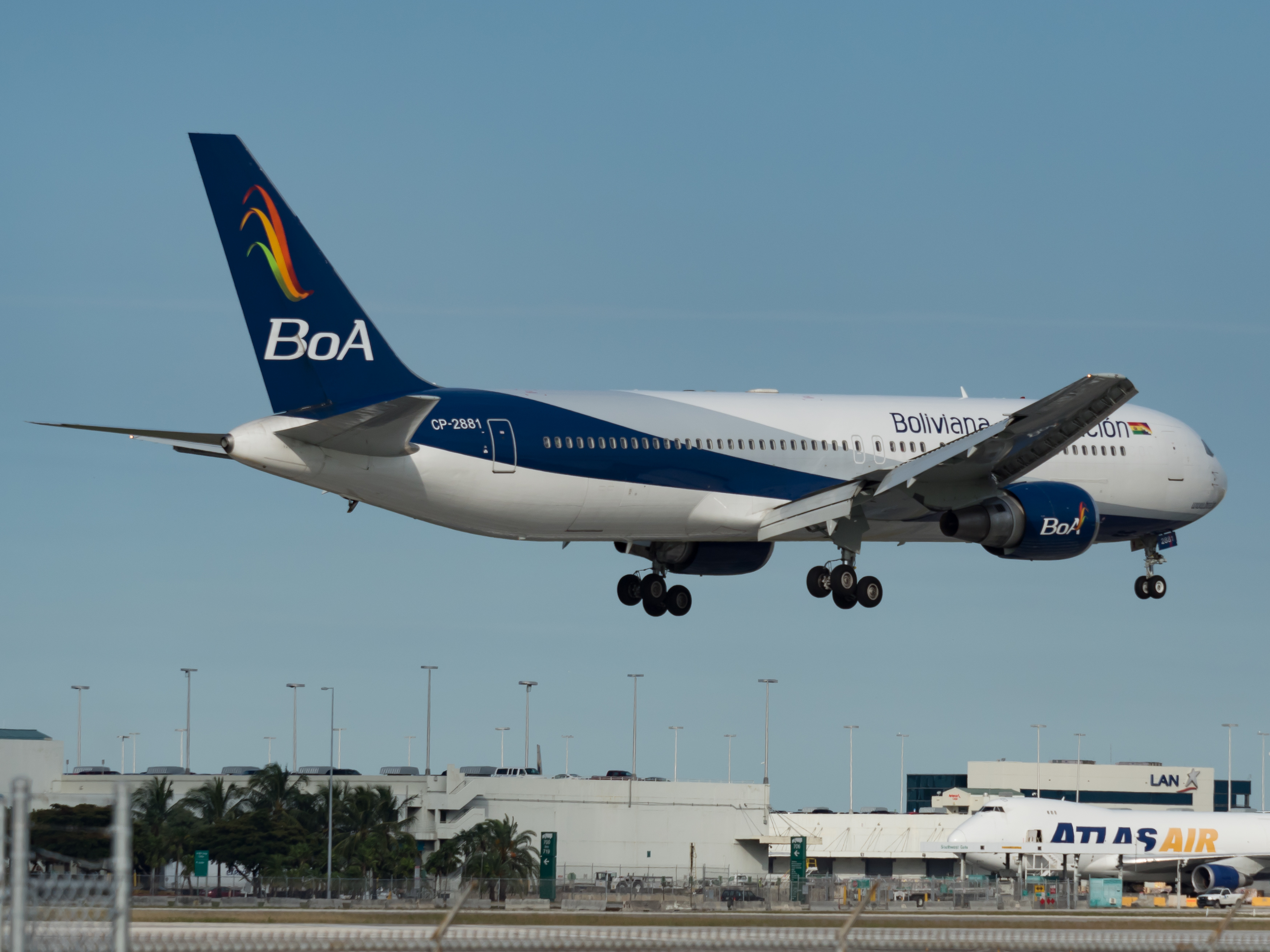 Boliviana de Aviación Boeing 767 at Miami International Airport